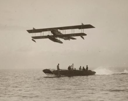 N-9 and 32 foot US Navy Sea Sled NAS Pensacola, FL, photo taken Jan 24, 1918. NARA Collection.